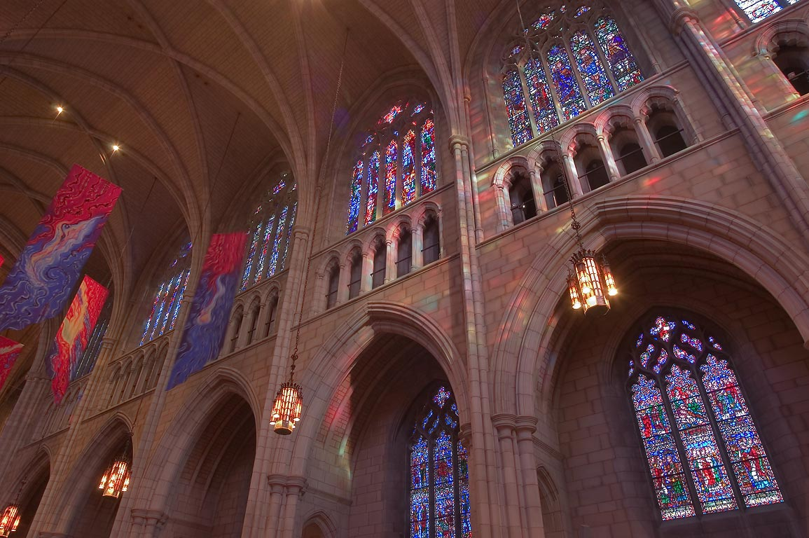 Nave with windows, Princeton University Chapel